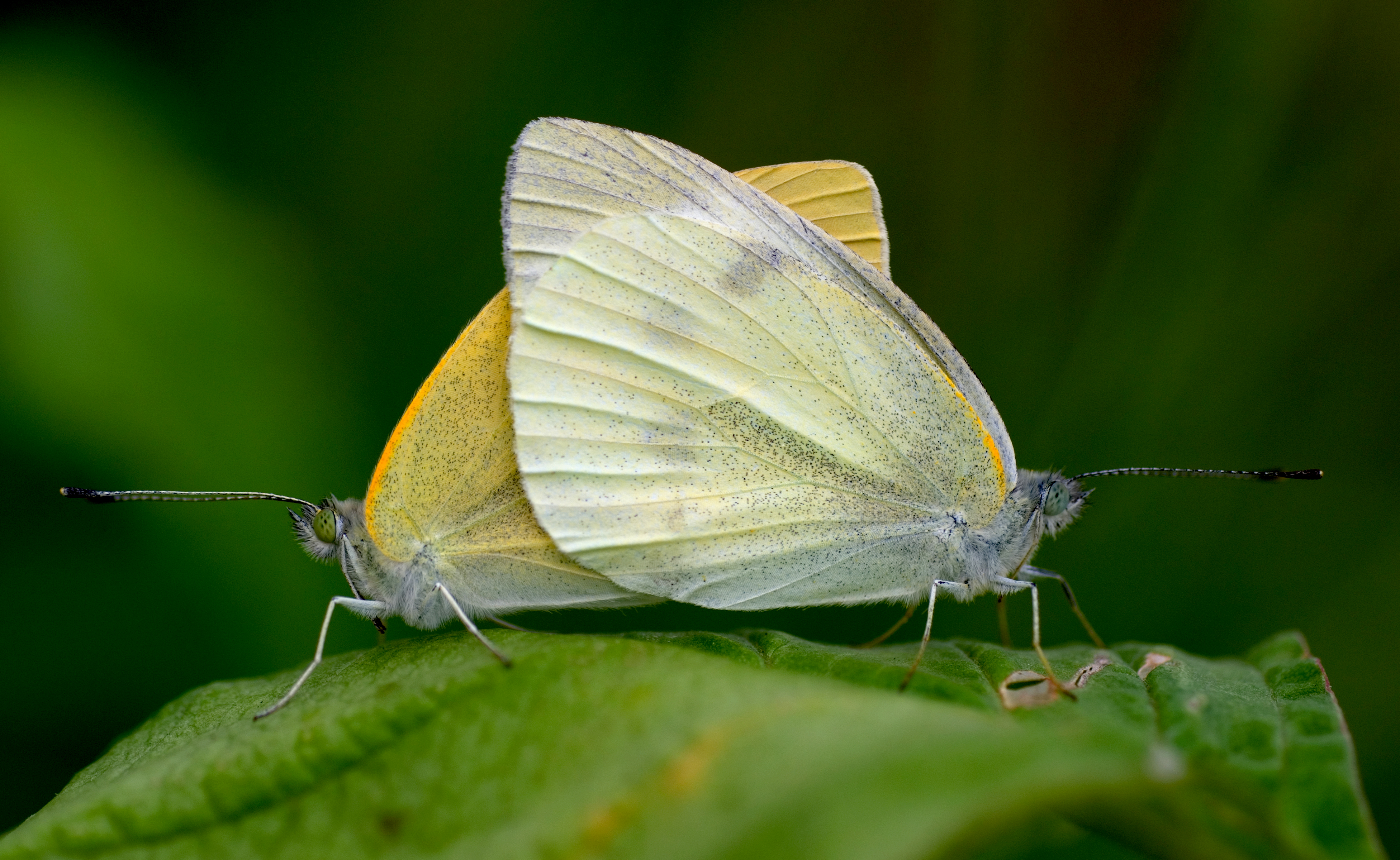 Two Japanese Small Whites – butterflies of the family Pieridae – mating. P. rapae is one of the most widespread and common butterflies. Its natural range extends all across temperate Eurasia, to the Arabian Peninsula, the Maghreb, Iceland and Japan. It has been introduced to North America. The subspecies crucivora inhabits northeastern Asia.